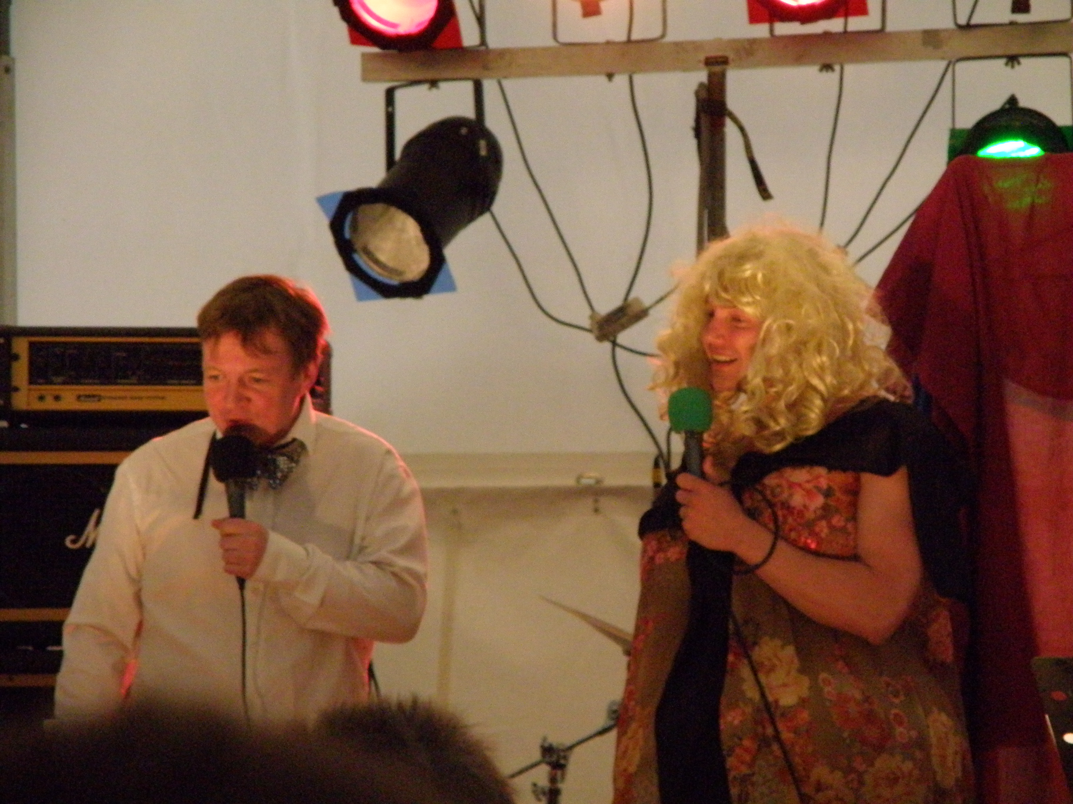 Pipar og Salt is a Faroese comedy group consistnig mainly of two men: Jákup Veyhe and Sjúrður Skaale. They make fun of people, especially of politicians from the Faroe Islands, but also religious people, common people, people from villages, people from Tórshavn, well they make fun about just about anything. Some years after they started their act Sjúrður Skaale became a politician himself. He was elected for the Faroese parliament, the Løgting in 2008 for Tjóðveldi. But in 2011 he left the party, and shortly after he joined Javnaðarflokkurin (The Socialist Party) and got elected for the Danish Folketing. Pipar og Salt was very popular in the Faroe Islands. They have made several funny characters which are known by most people. They have also made several songs along with their acting. Several of these songs were popular and often played in the Faroese radio. They are not as active anymore. This photo if from June 2011 when they had a come back at the Jóansøka in Tvøroyri. Later that summer they performed in Tórshavn, they had great succes in both places.Føroyskt: Pipar og Salt framføra á Jóansøku 2011 á Tvøroyri.